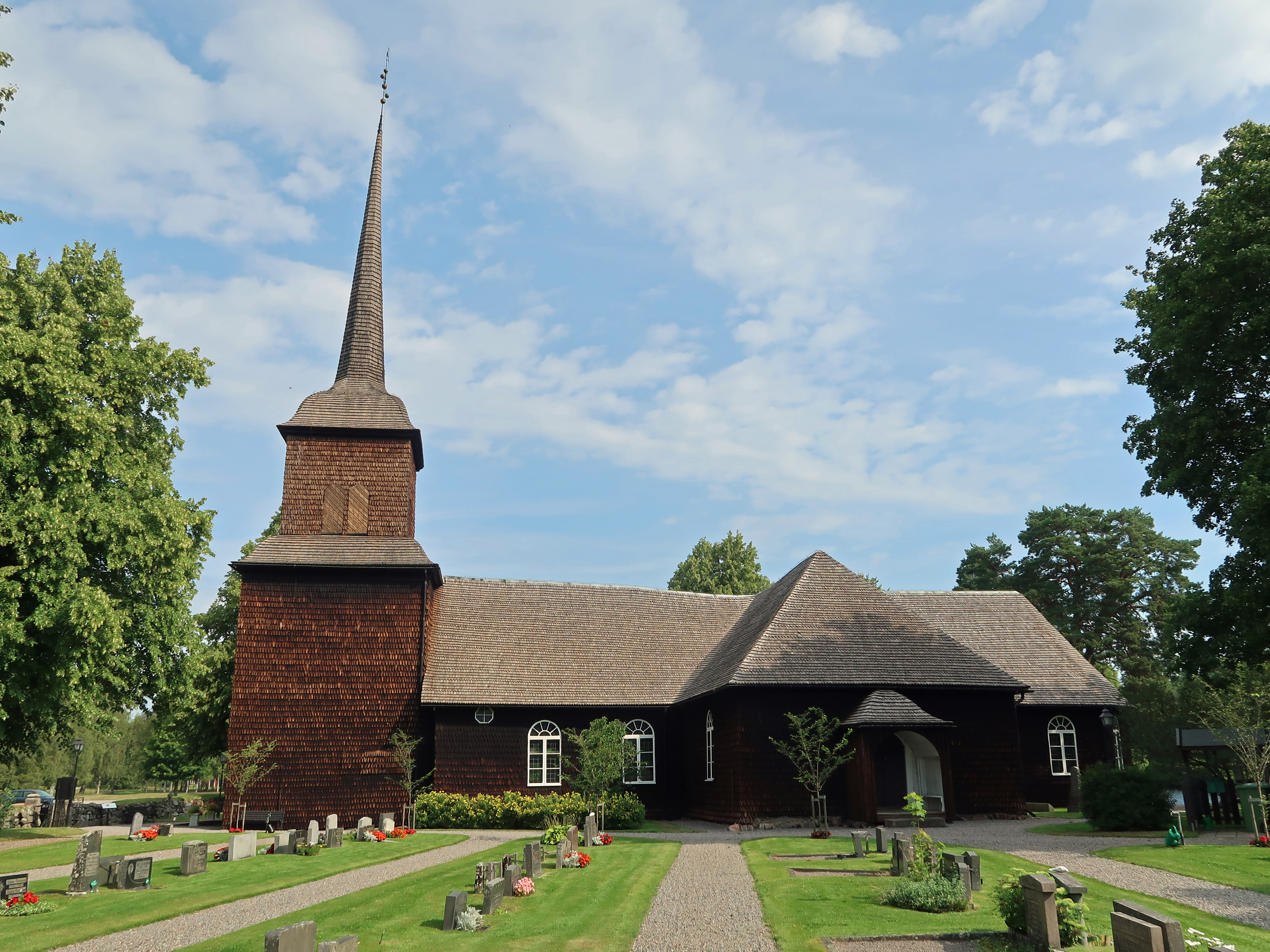 Nysund Church, Åtorp, Degerfors, Örebro County